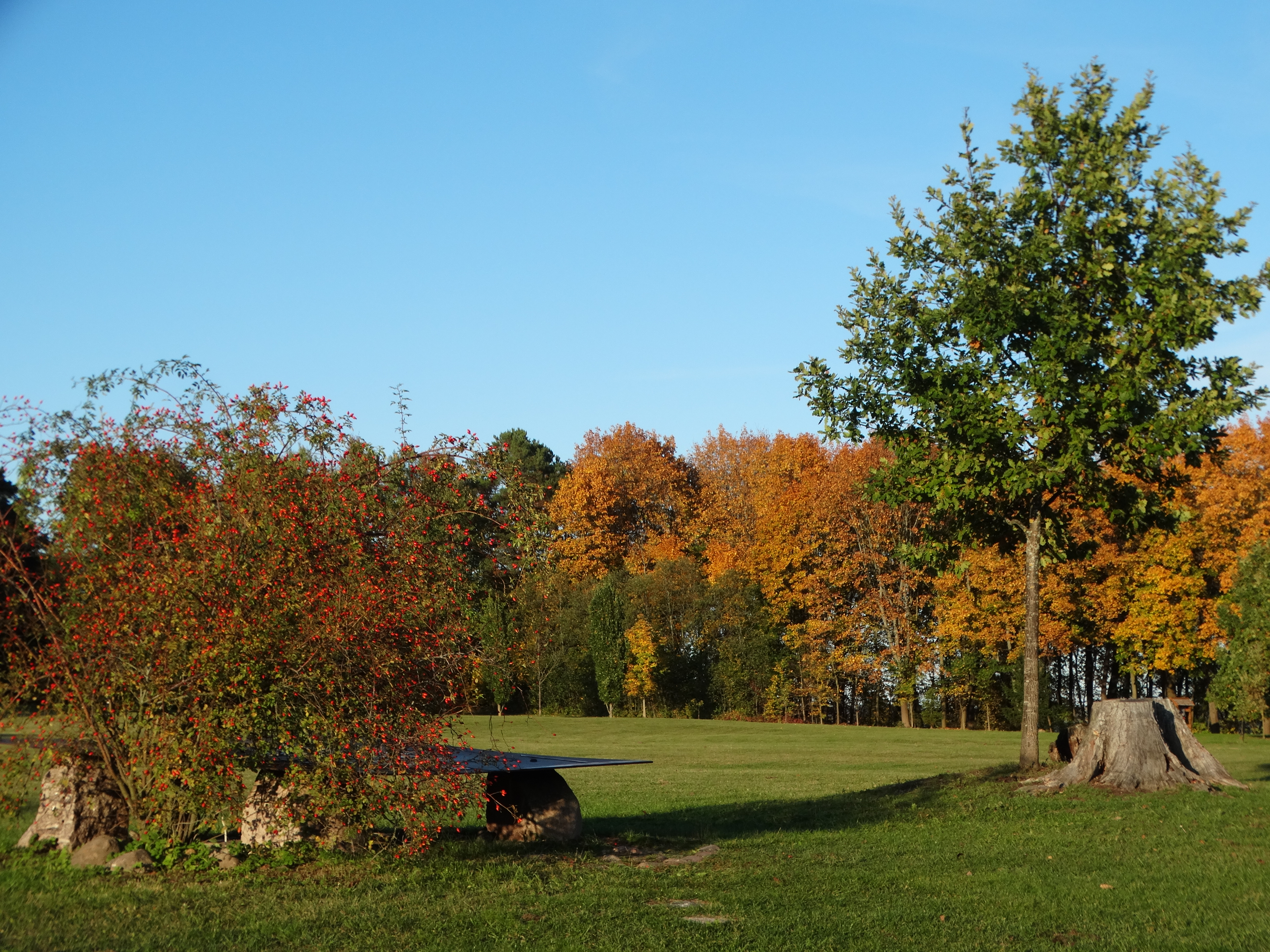 Place of an old oak, Pažaislis monastery, Lithuania.